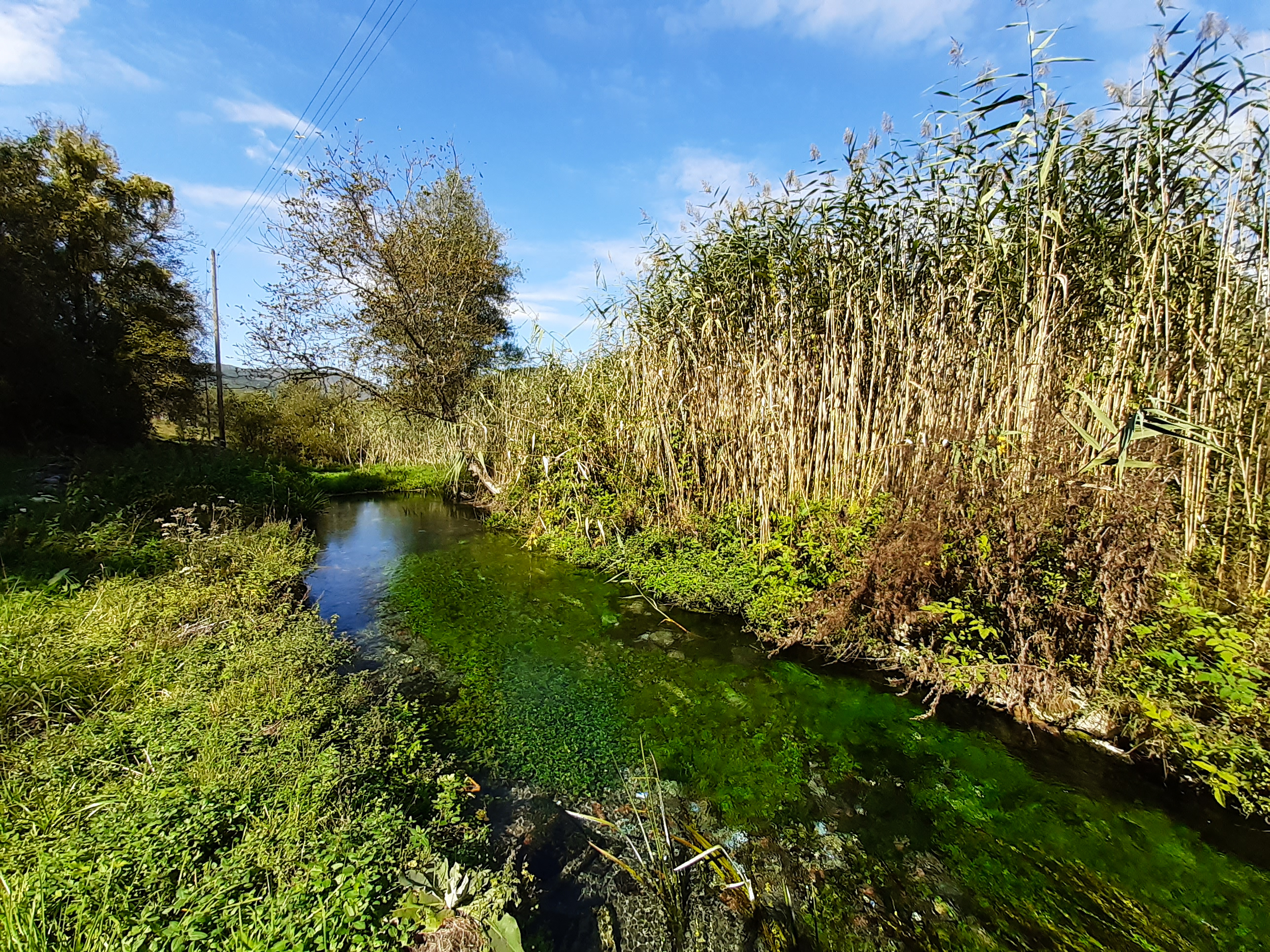 Srpski (latinica): Izvor Krupice (Rudo). This image was uploaded as part of Trace of Soul 2019.